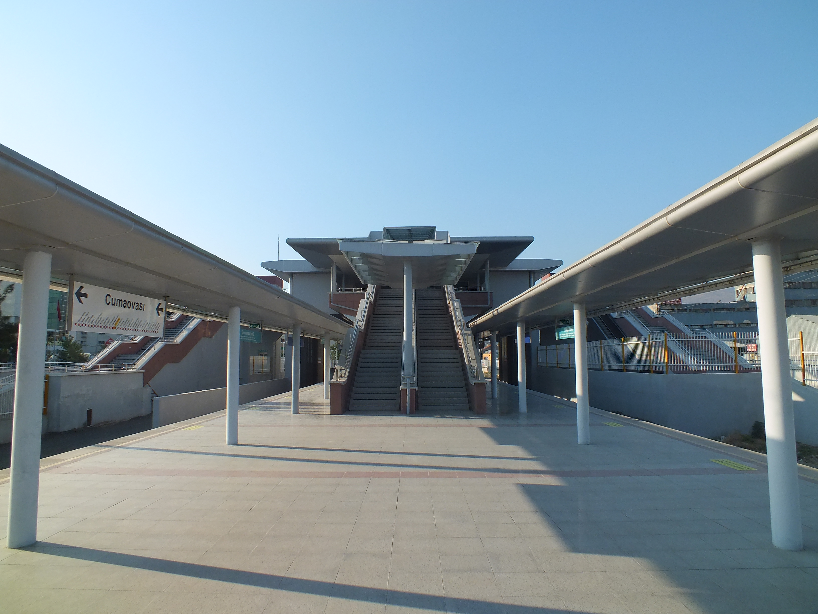 The main staircase of Salhane station.